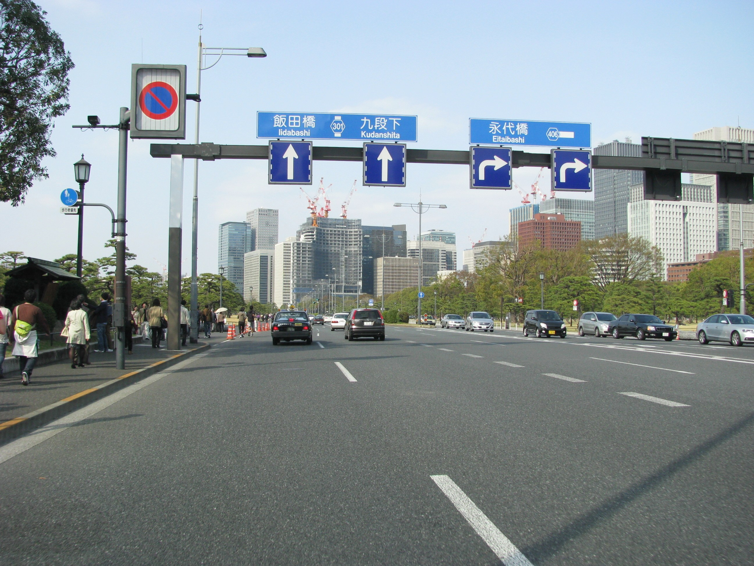 The Tokyo Prefectural Route 301. This place is Kōkyo-gaien in Chiyoda, Tokyo, Japan.